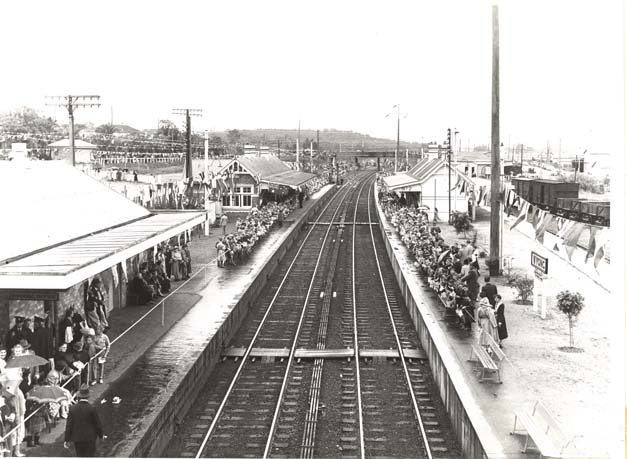 Crowds awaiting the arrival of Queen Elizabeth II onboard the royal train at Wyong Railway Station Dated: 9 February 1954 Digital ID: 17420_a014_a014000166 Rights: We'd love to hear from you if you use our photos. Many other photos in our collection are available to view and browse on our website using Photo Investigator.